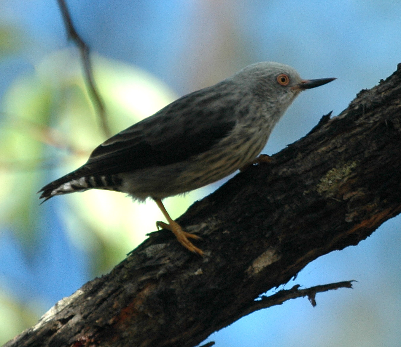 Varied Sittella (Daphoenositta chrysoptera) Kobble Creek, SE Queensland, Australia